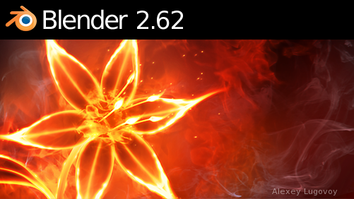 Splash screen of Blender 2.62. The splash screen was made by Alexey Lugovoy